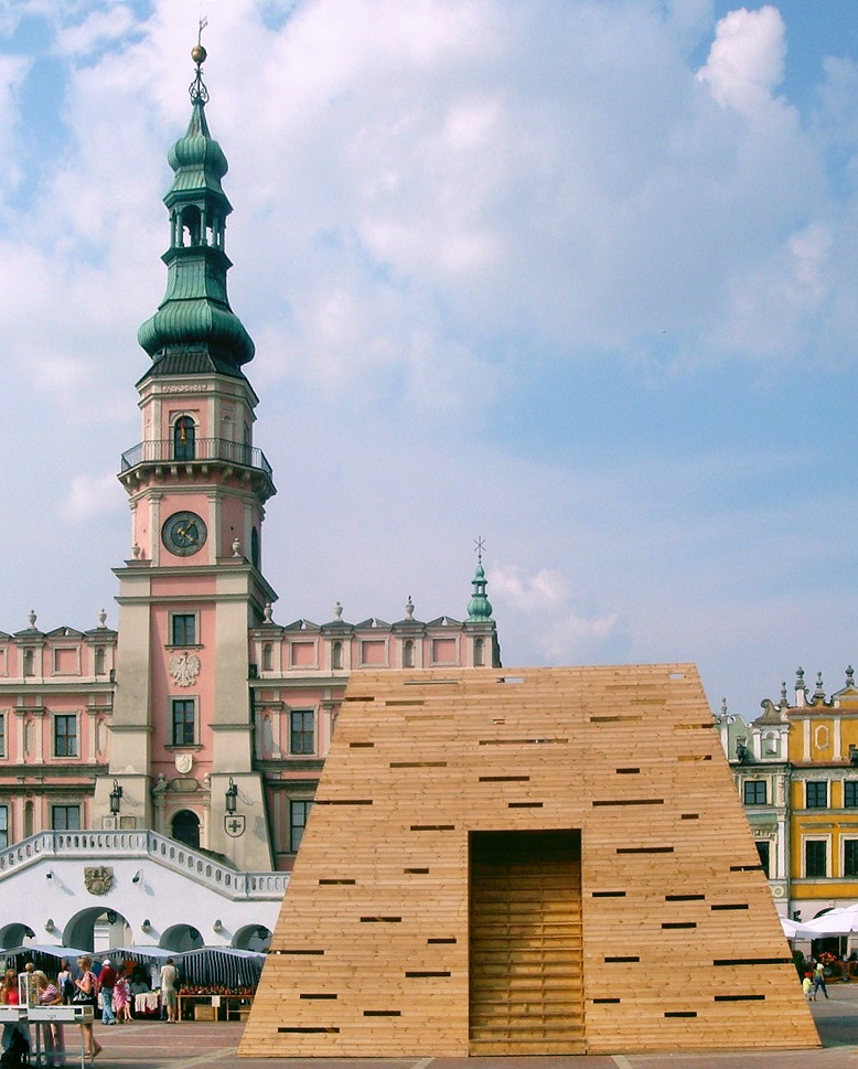 Cultural event: "Ideal City - Invisible Cities" in Zamość, 2006